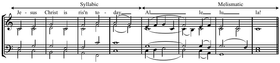 Example of syllabic and melismatic text setting.